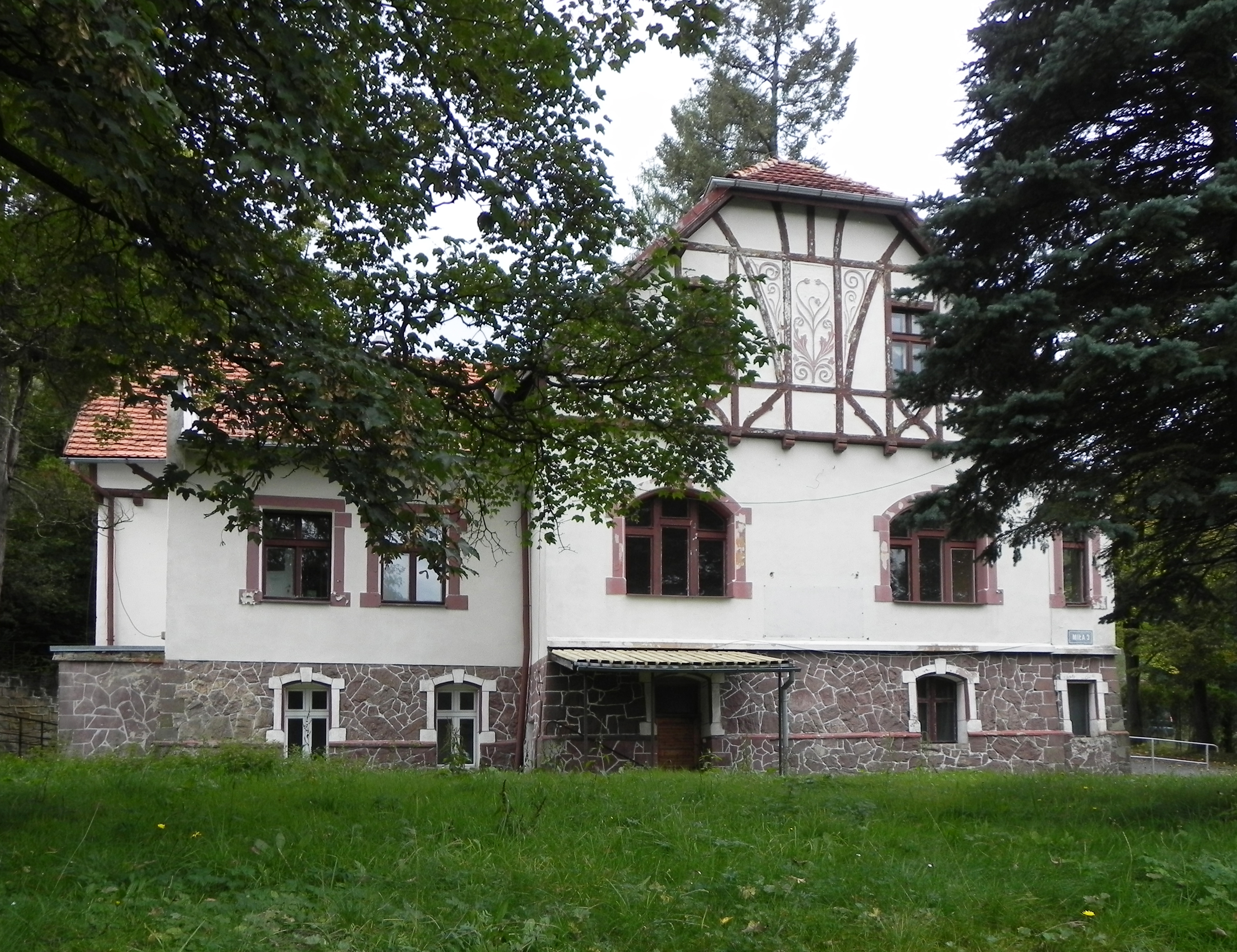 3 Miła Street in Lądek-Zdrój